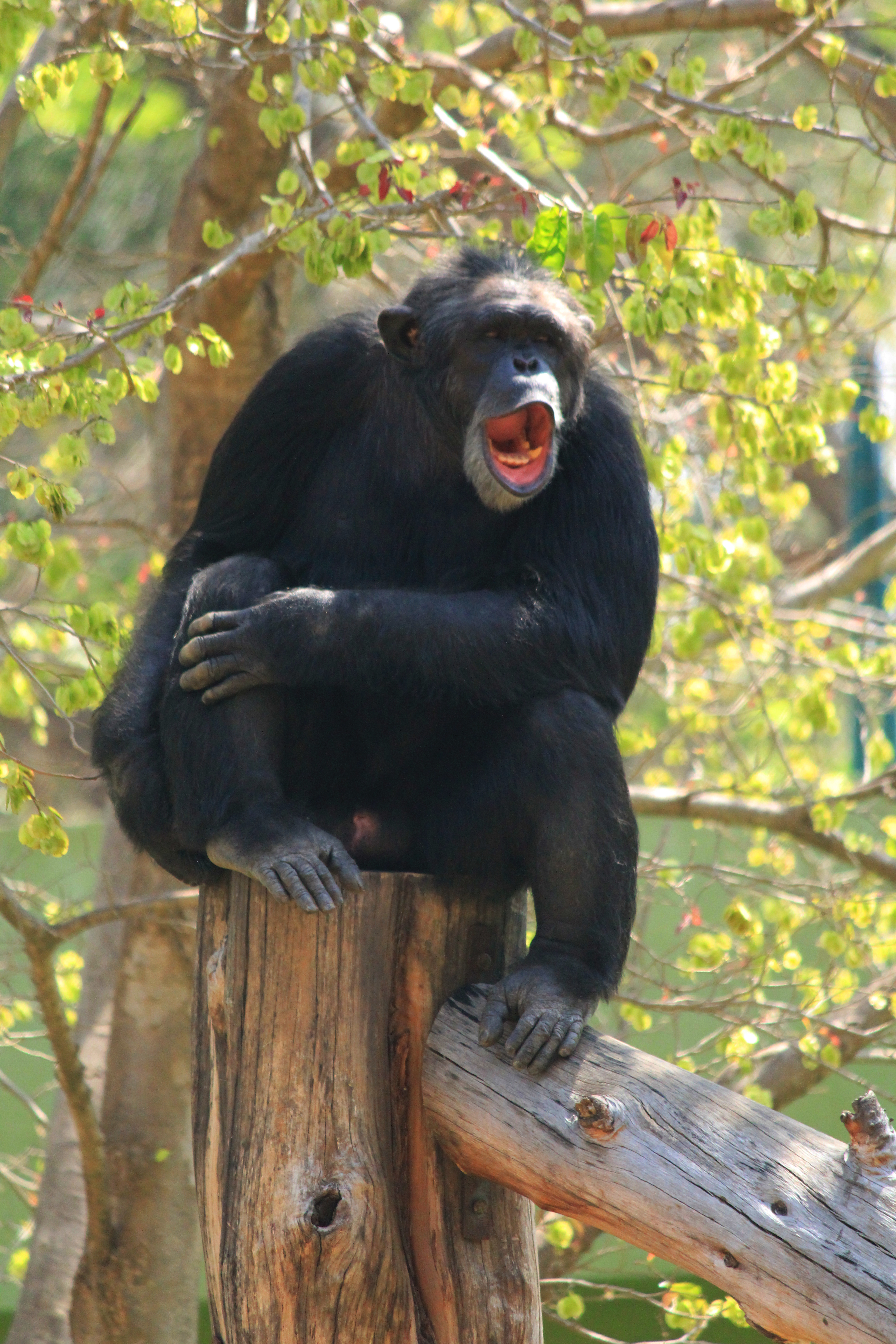 Chimpanzee in tree